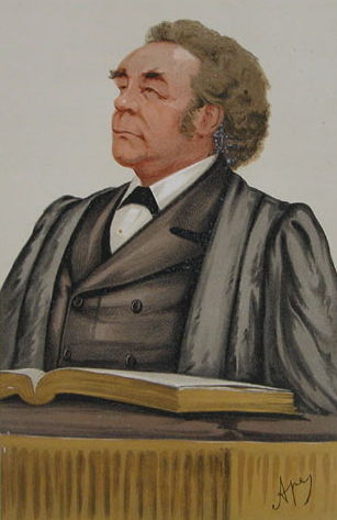 Caricature of Joseph Parker (1830-1902). Caption read "Congregational Union?".